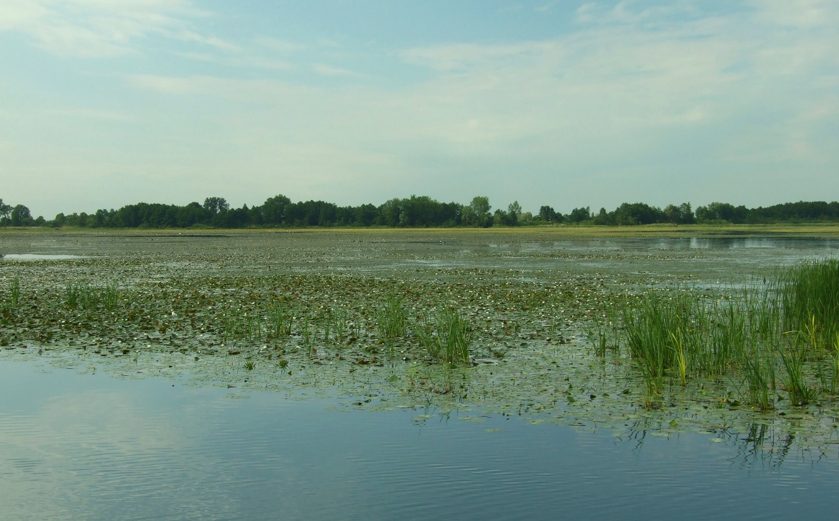 Drużno Lake - Elblag-Ostróda channel is passing through this lake. Large part of this lake is covered by vegetation thus making a perfect habitat for various water bird species. Warmijsko-Mazurskie voivodship, Poland